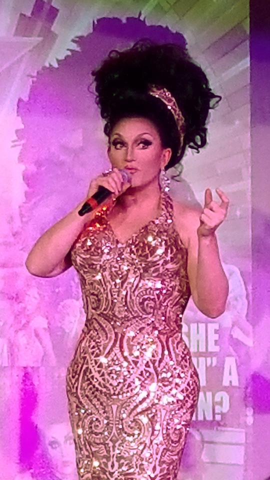 BenDeLaCreme performing at Oasis in San Francisco, California, United States